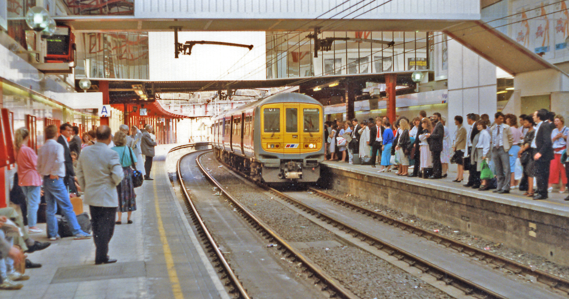 King's Cross Thameslink station, 1989. View SE on Platform A, towards Farringdon, Blackfriars and South London: 'City Widened Lines' connecting the Metropolitan, Midland and Great Northern with the South Eastern & Chatham lines through Snow Hill Tunnel. Following bomb-damage in 10/40 and the opening of a new Metropolitan station in 5/41, it continued in use by LMS and LNER services to Moorgate until 1979, then reopened in 1983 as 'King's Cross Midland City' to serve the newly electrified services from Bedford; then it was renamed 'King's Cross Thameslink' in 5/88 on inauguration of the Thameslink services through Snow Hill Tunnel. Here a class 319 dual-voltage EMU arrives at Platform B on a Down Thameslink service in the rush-hour, having been switched at Farringdon from 750 V DC third-rail to 25 kV overhead supply. (The station closed 7/12/07 on opening of the new station beneath St Pancras International).